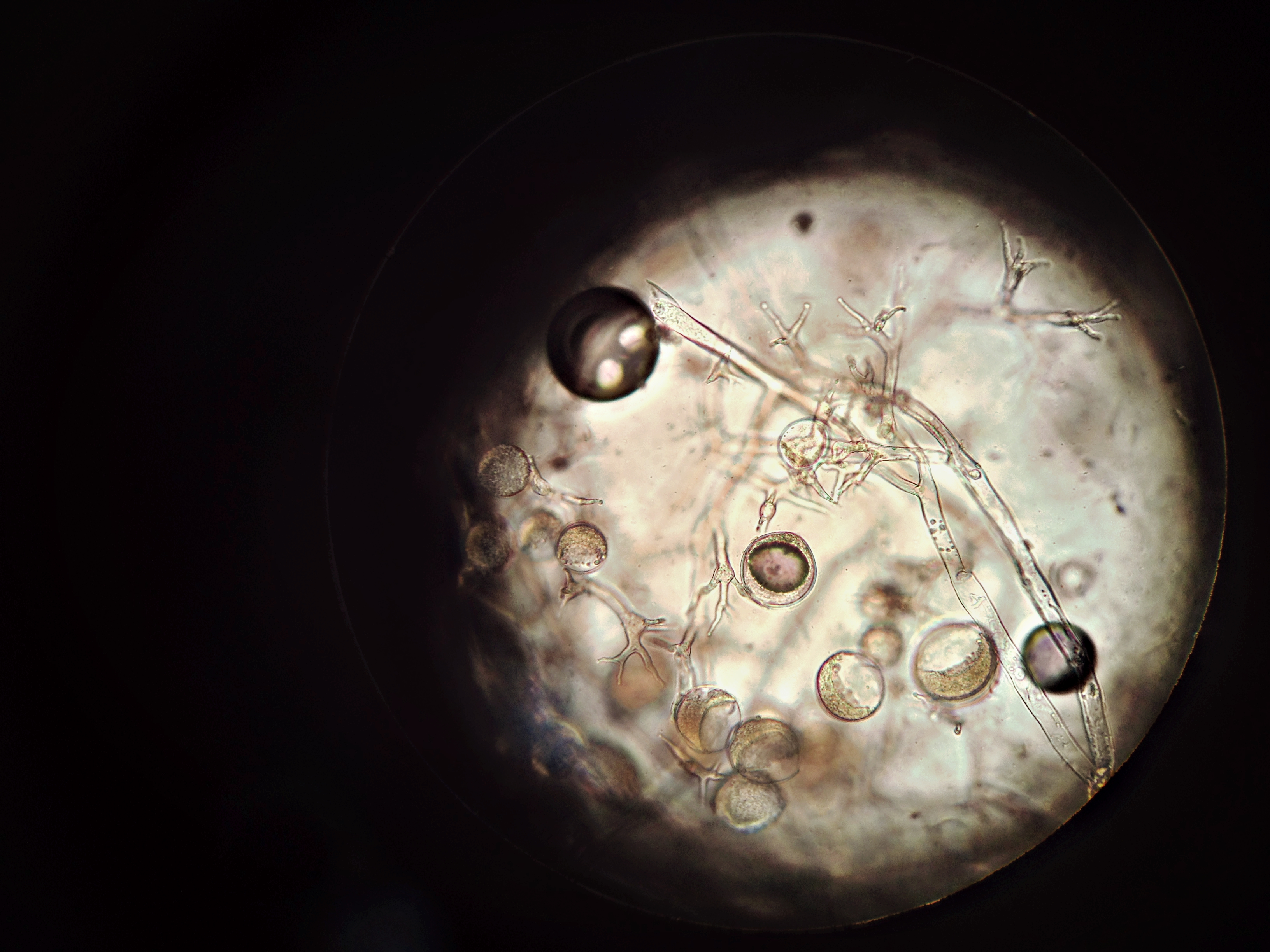 Plasmopara halstedi (Plasmopara elianthii) is a mushroom belonging to the Oomycota genus. It grows on the Sunflower, causing necorosis on the leafs of the plant, bringing it to death. In this picture we can see the mushroom hyphae and round spores. In a first look the picture gives the effect of the moon with is craters. I took this picture during an exercise. We were studing mushrooms that causes damage on agronomic species, such as sunflower, lettuce, potato and tobacco. The photo was shot with my iPhone during a lesson of Plany Patology at the Università degli Studi di Perugia (University of Perugia), in Italy.